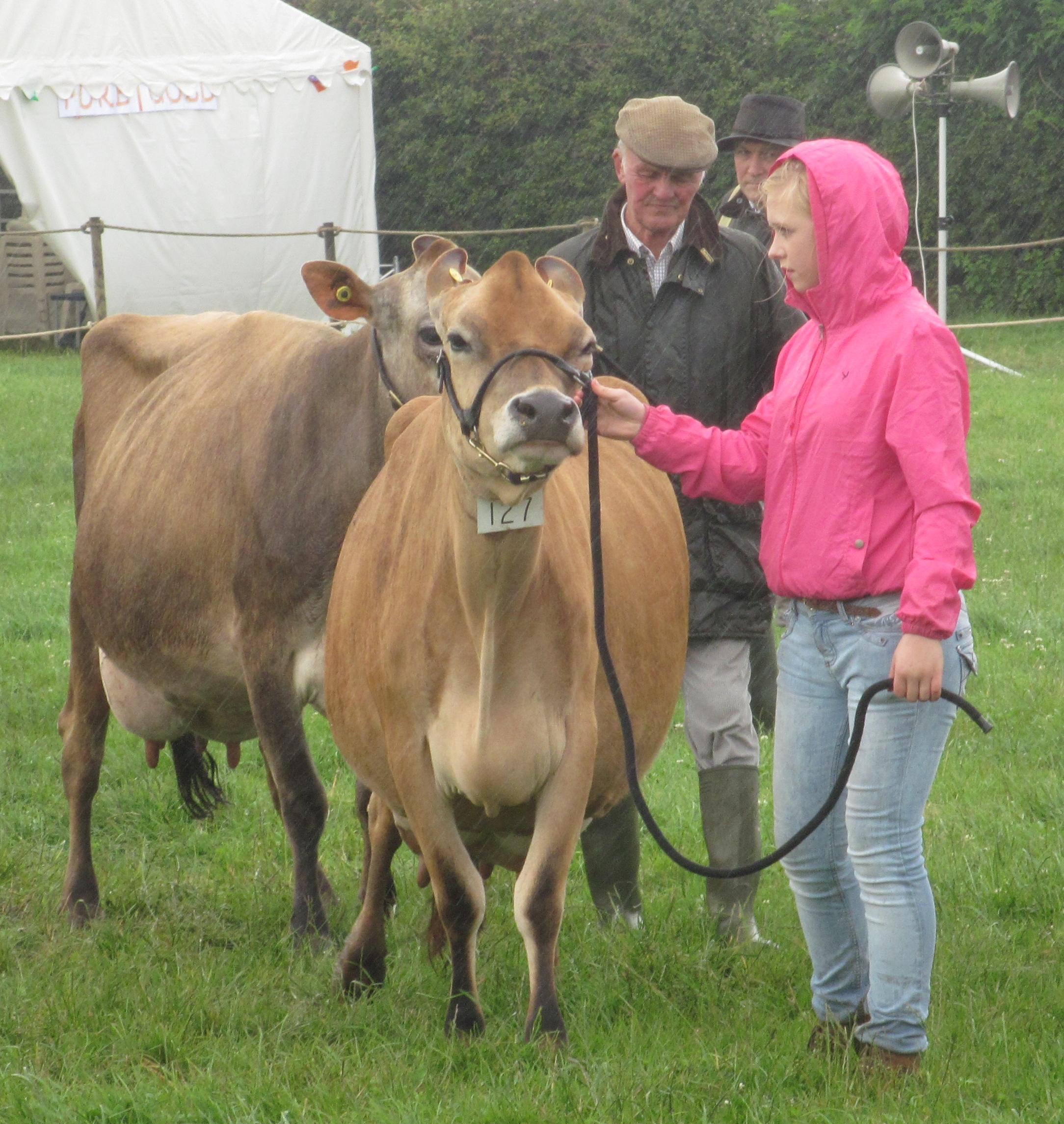 West Show, Jersey, 7-8 July 2012